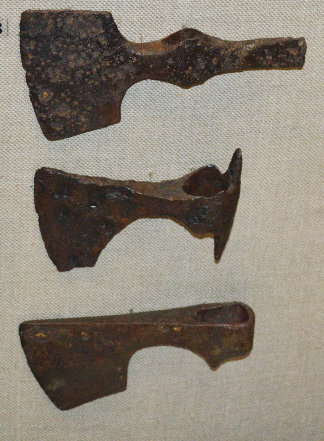 Battle axes, Ancient Rus'.